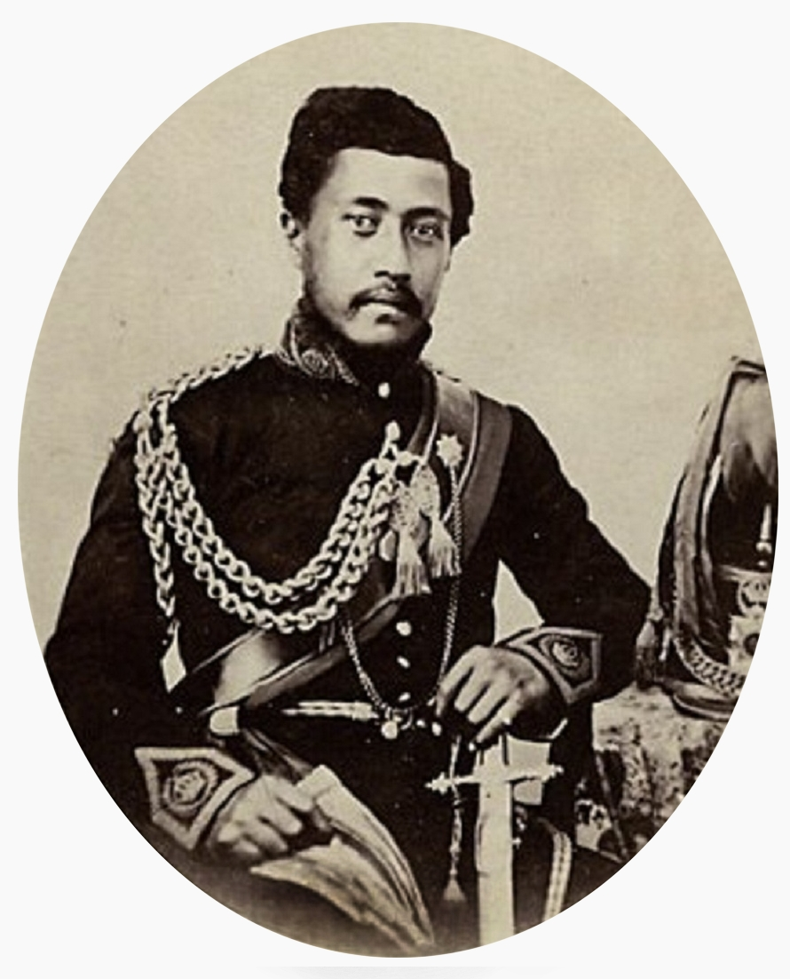 William Charles Lunalilo in uniform.